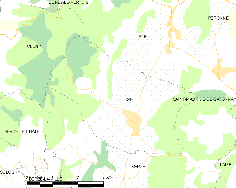 Map of French municipality